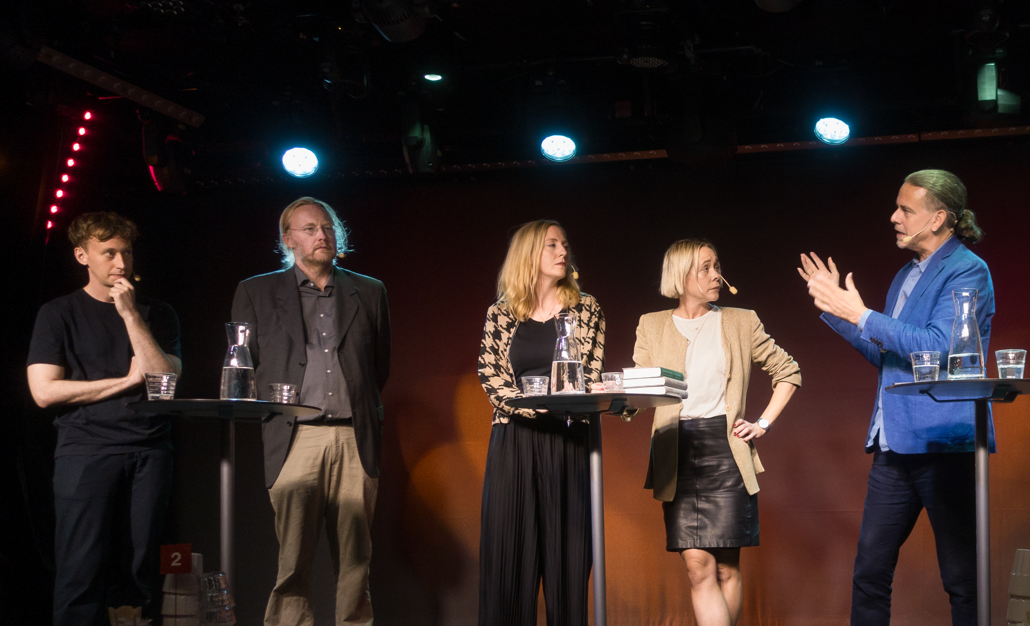 Fri Tanke-seminariet "Kan man lita på populärvetenskapen?" på Kulturhuset i Stockholm den 4 september 2019. Från vänster: Moderator Victor Malm, redaktör på Expressen Kultur, Pelle Andersson, förlagschef Ordfront, Kerstin Almegård, förläggare Bokförlaget Ester Bonnier, Tove Leffler, förlagschef Atlas,Christer Sturmark, VD och förläggare Fri Tanke.